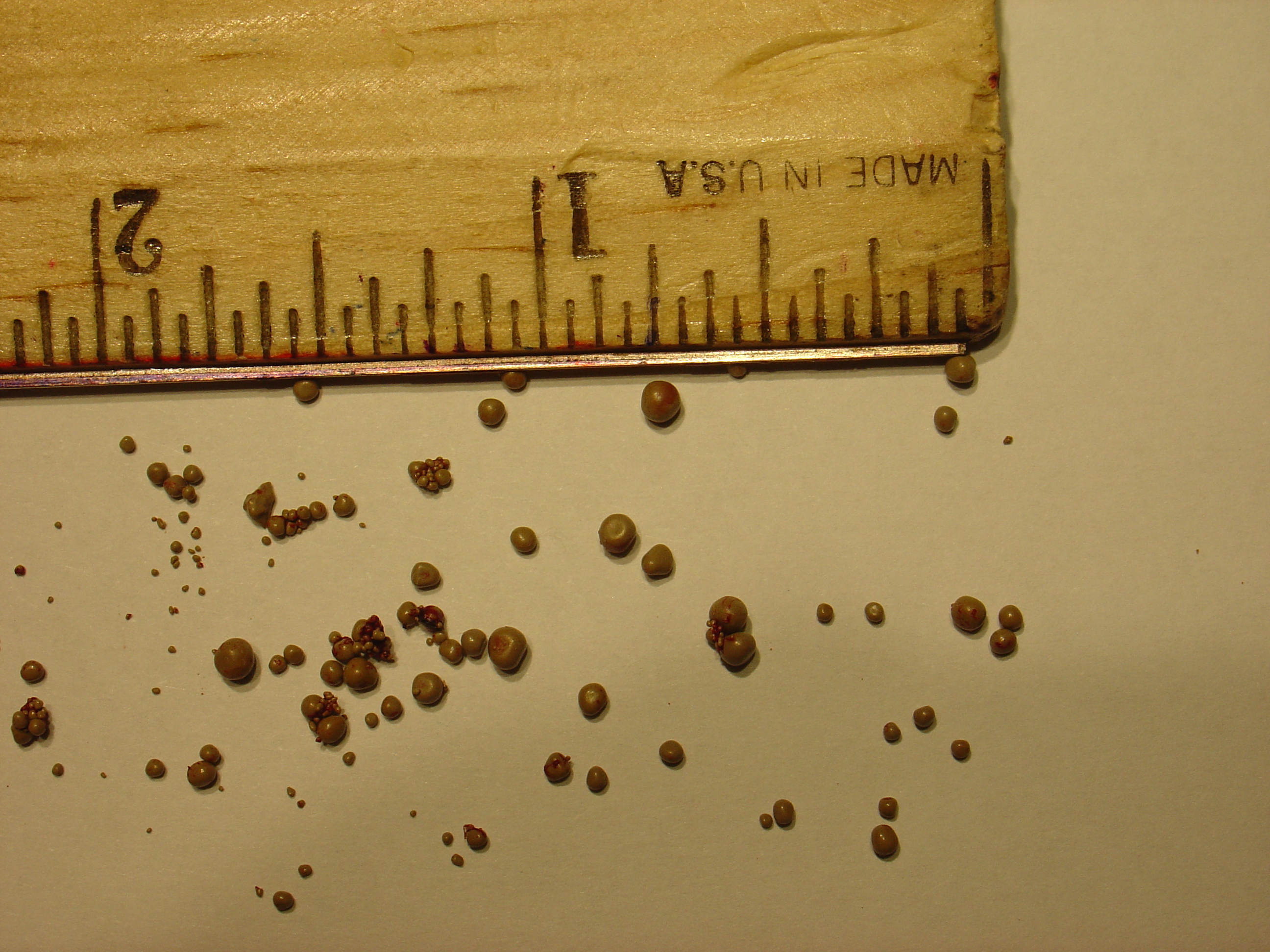 Urate stones removed from a dog's urinary bladder.